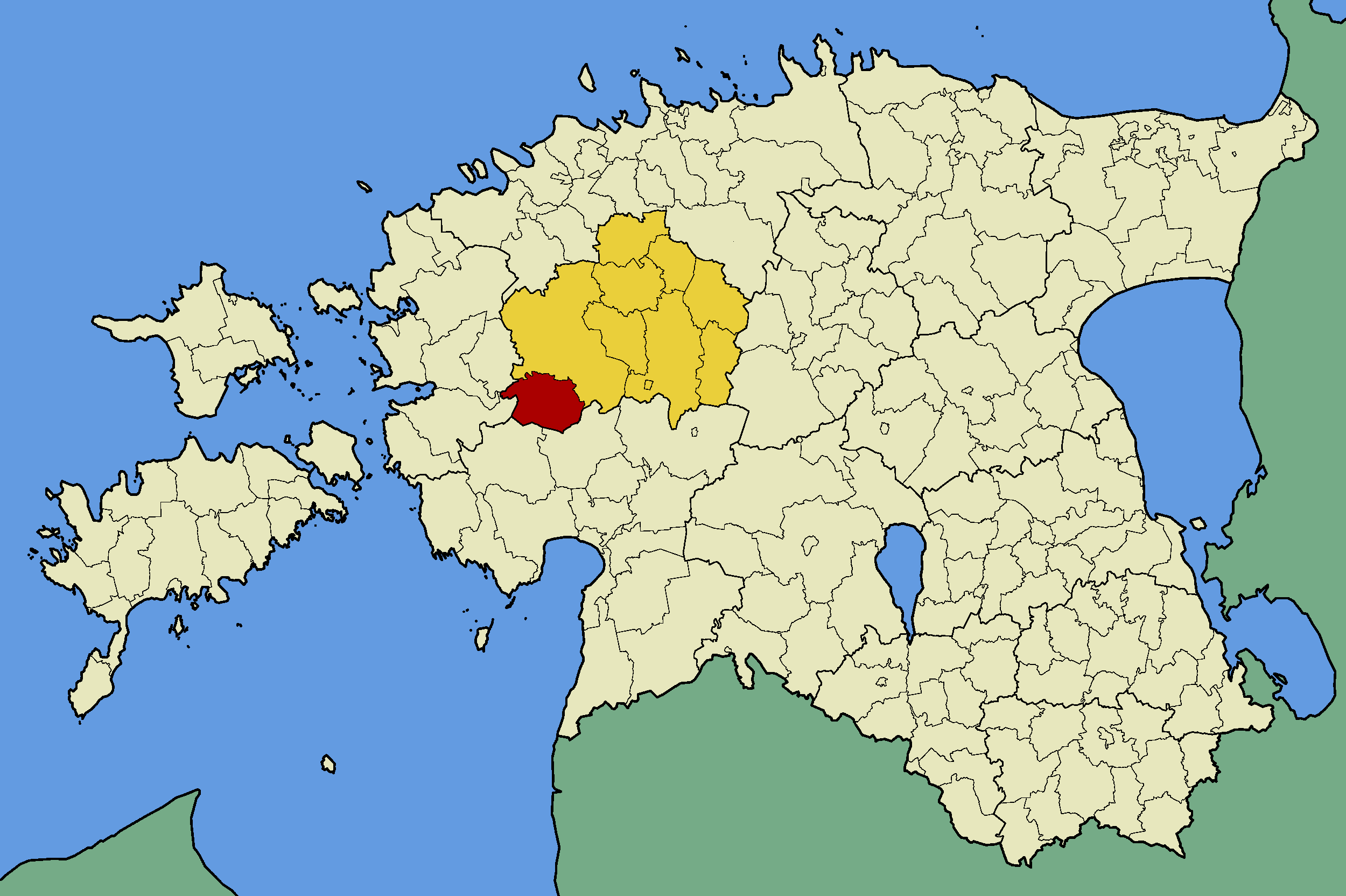 Map of Estonia with borders of municipalities (parishes). Rapla county and Vigala municipality emphasized.